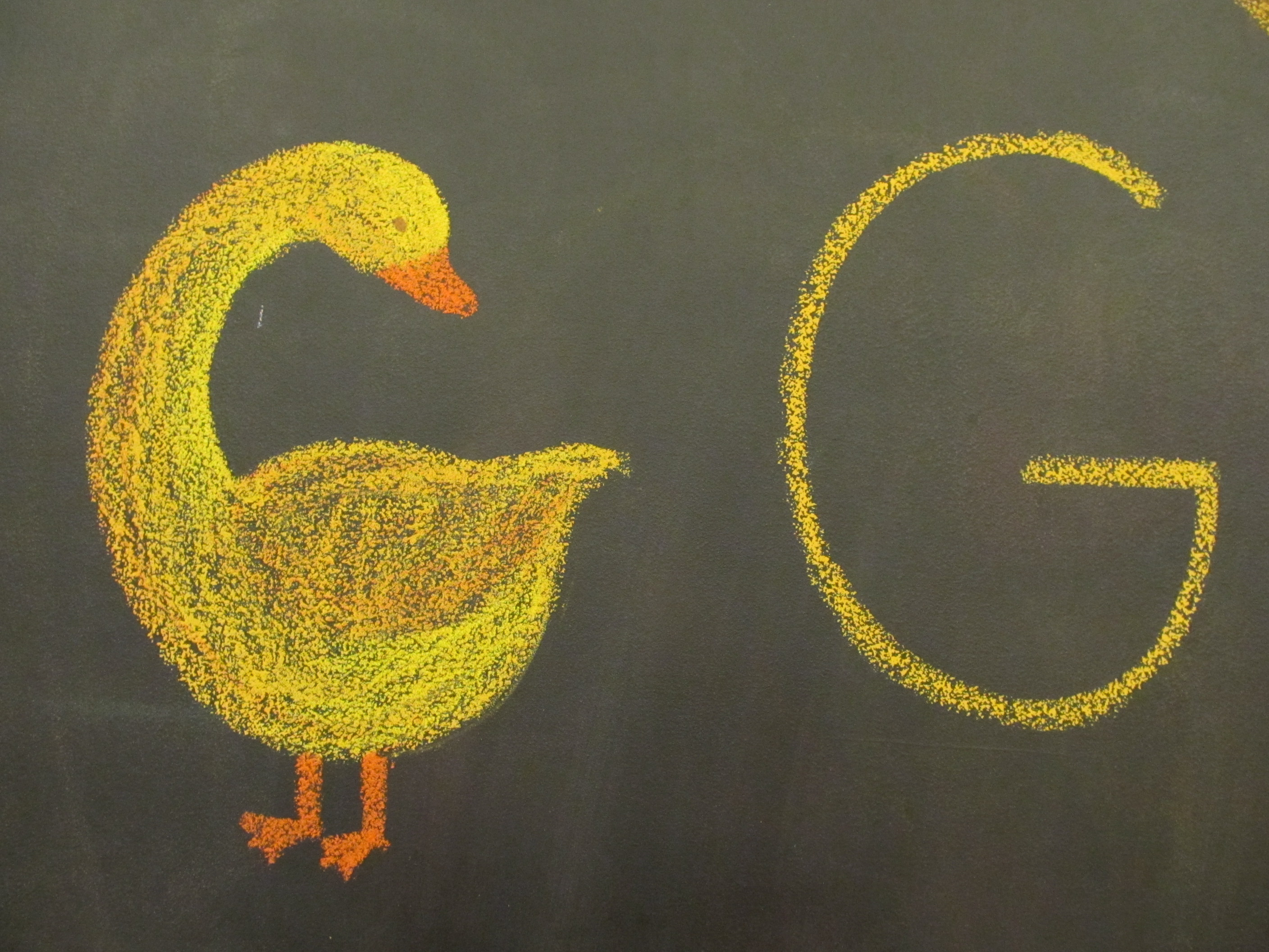 Waldorf chalkboard drawing introducing the alphabet in 1st grade